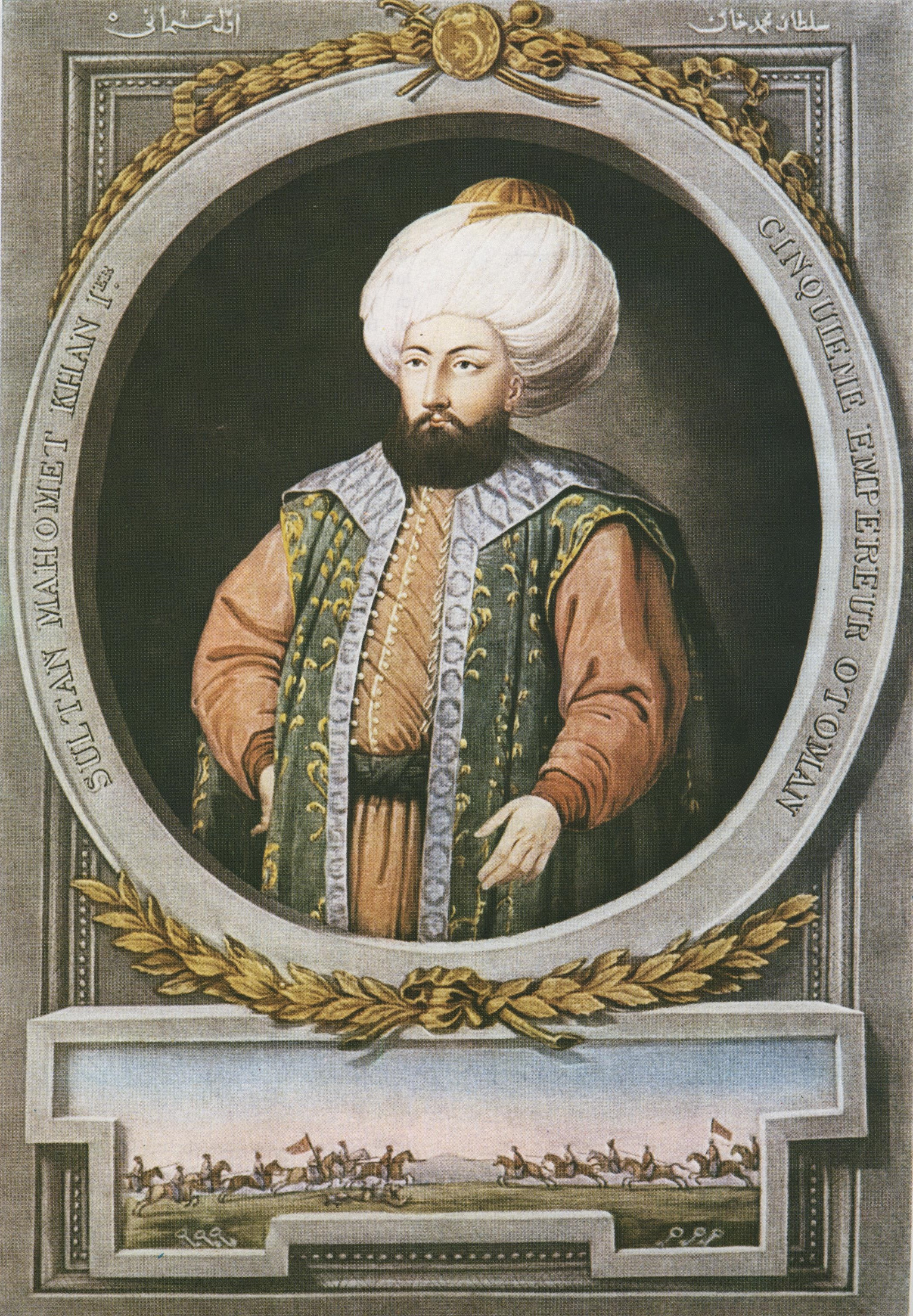 Mehmet I